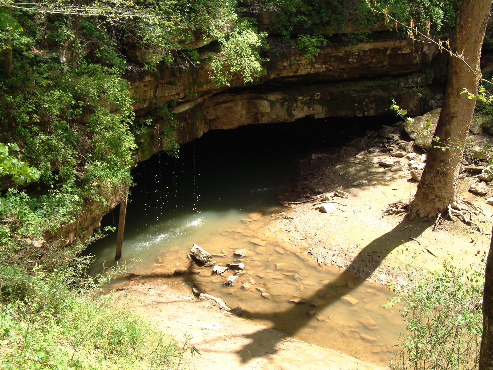 River Styx, a partly subterranean waterway, emerges onto the surface in Mammoth Cave National Park, Kentucky.